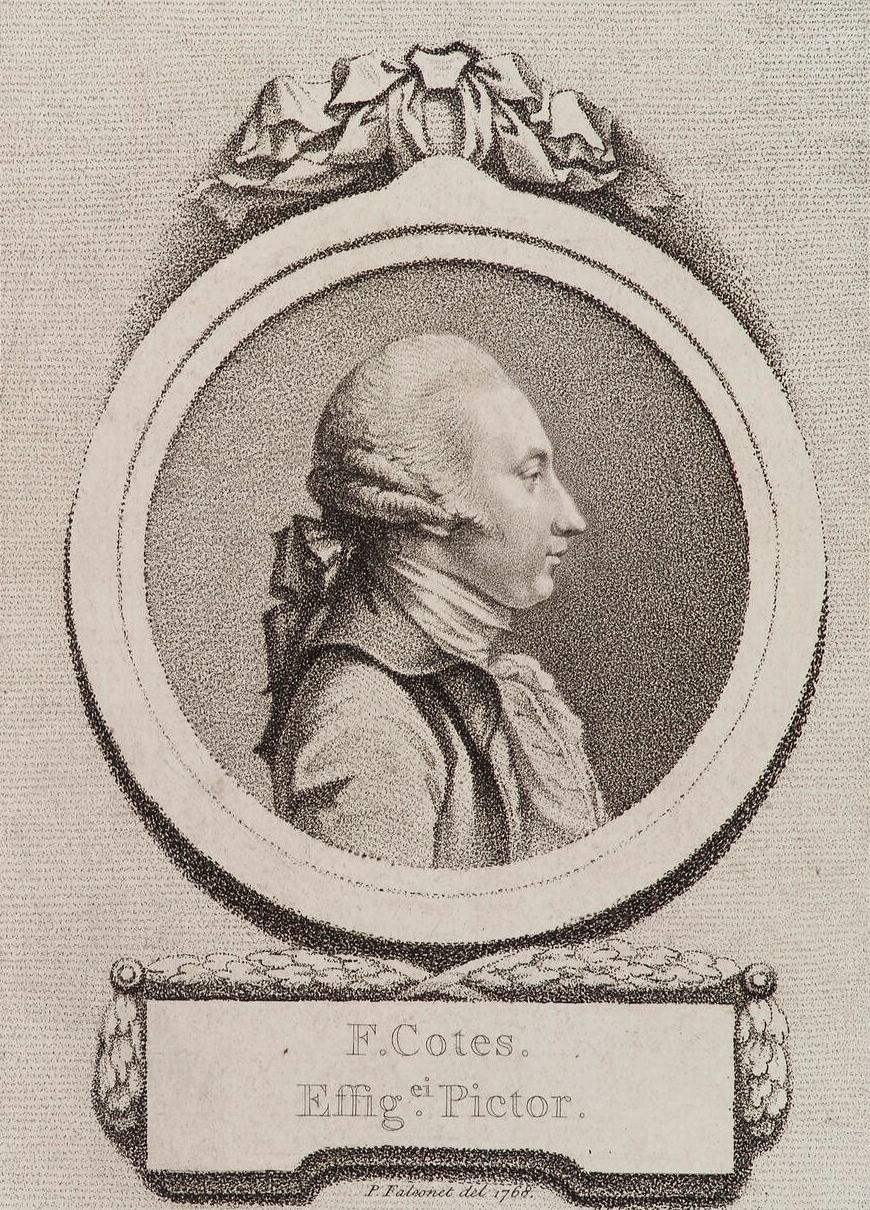 Francis Cotes by D.P. Pariset, sold by Ryland and Bryer, sold by and after Pierre-Étienne Falconet stipple engraving, (1768). 8 1/2 in. x 5 3/4 in. (217 mm x 148 mm) plate size; 11 7/8 in. x 9 1/2 in. (303 mm x 240 mm) paper size. Given by Sir Herbert Henry Raphael, 1st Bt, 1916. NPG D20442.